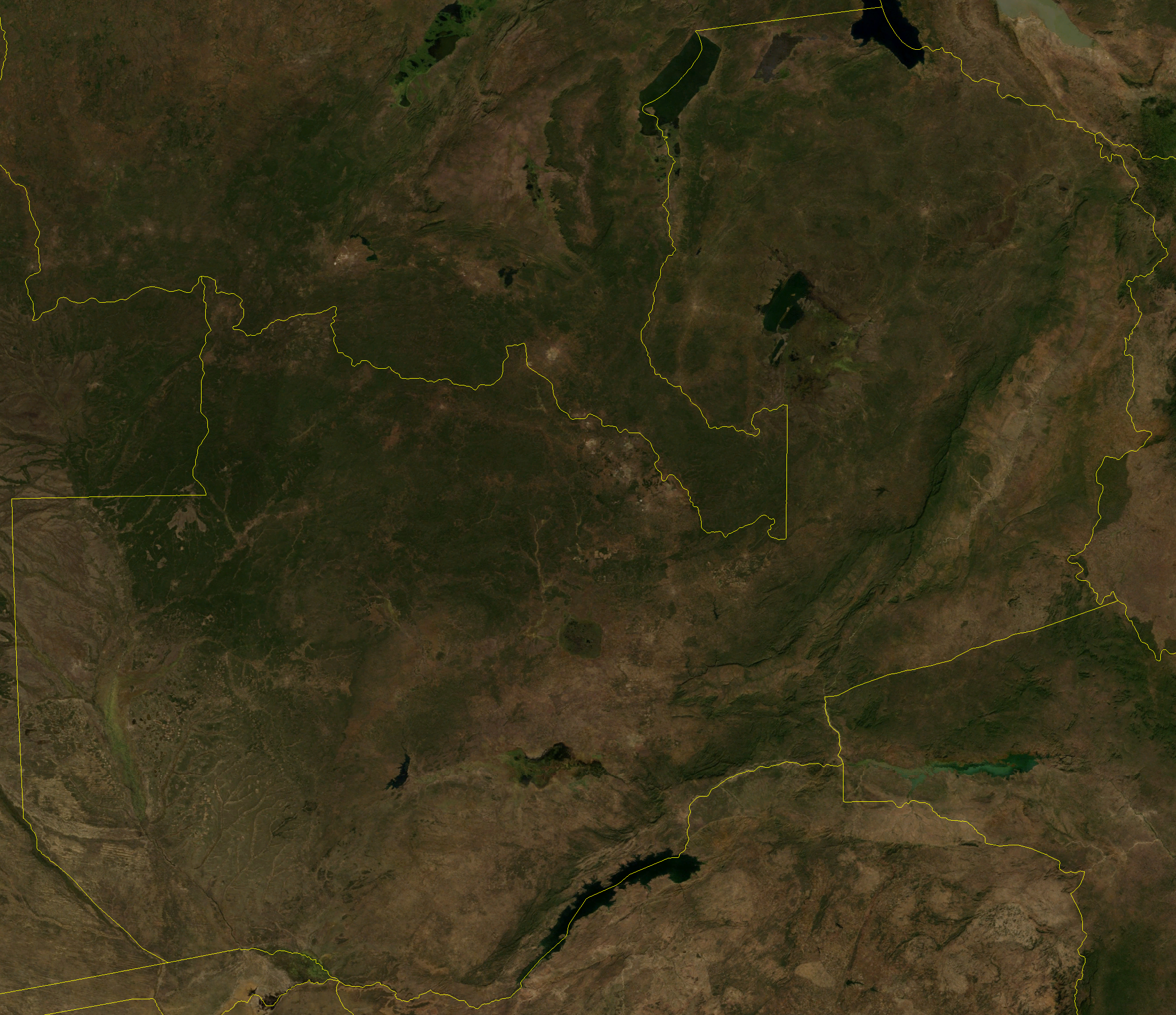 Satellite image of Zambia in June 2004. Blue Marble Next-Generation image.